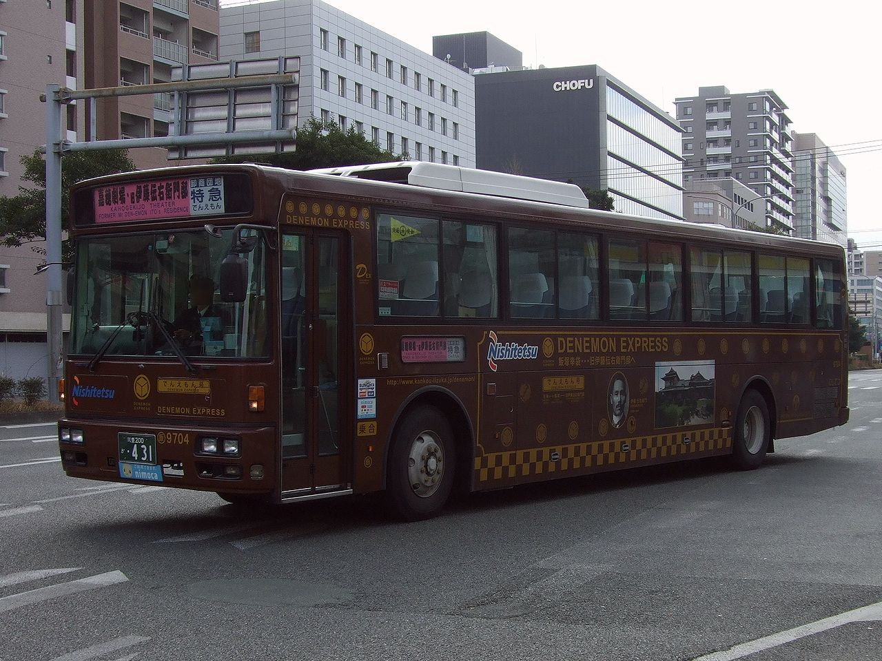 Nishitetsu Bus highway bus "Den-emon" Company:Nishi Nippon Railroad Use:transit bus Belongs to:Iizuka Depot Car license:FOC 200 KA 431 Code:9704 Chassis manufacturer:Nissan Diesel Coachbuilder:Nishinippon Shatai Kogyo Location:in Hakata-ku, Fukuoka City, Fukuoka, Japan.